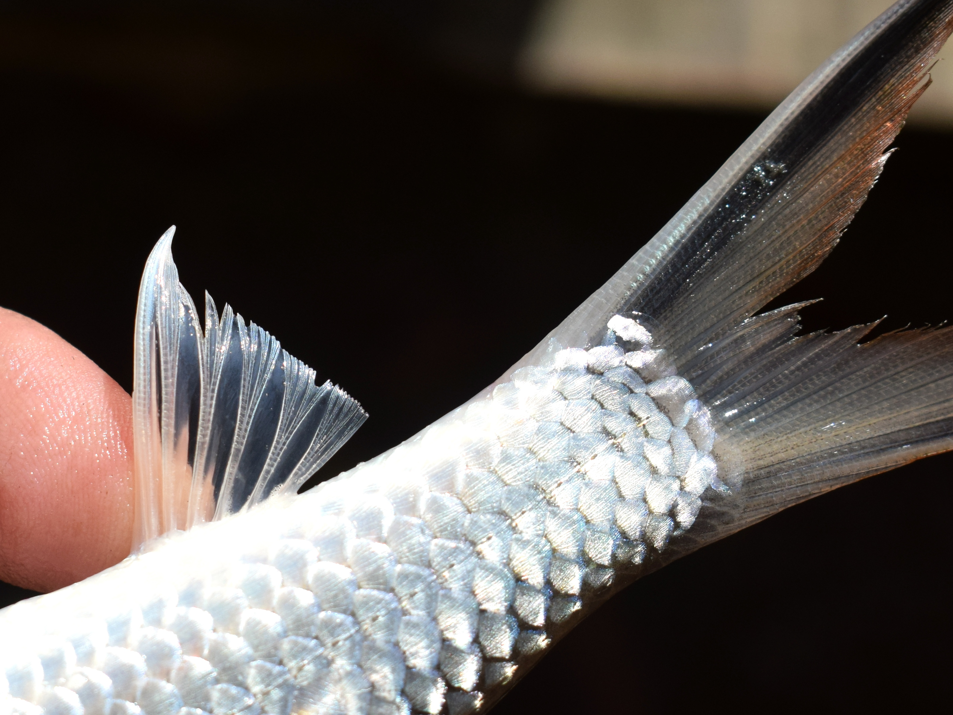 Sucker barb Barbichthys laevis; anal fin and caudal region. From North Musi Rawas (Muratara), South Sumatra, Indonesia.